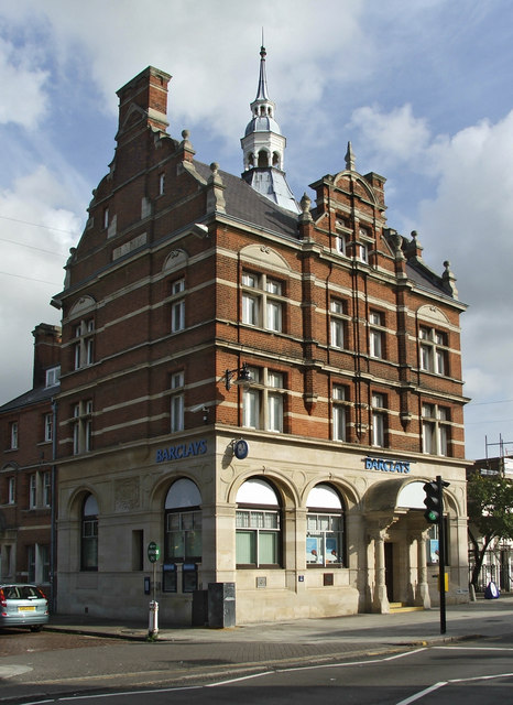 Barclays Bank, Enfield Town On 27 June 1967 the world's first ATM (Cash Machine) was installed at this branch. There is a plaque on the front of the building marking the spot where the machine was installed. The opening ceremony was performed by Reg Varney of "On the Buses" fame. This plaque 935883 was installed to commemorate the 25th anniversary of this installation, which changed the face of banking for ever.